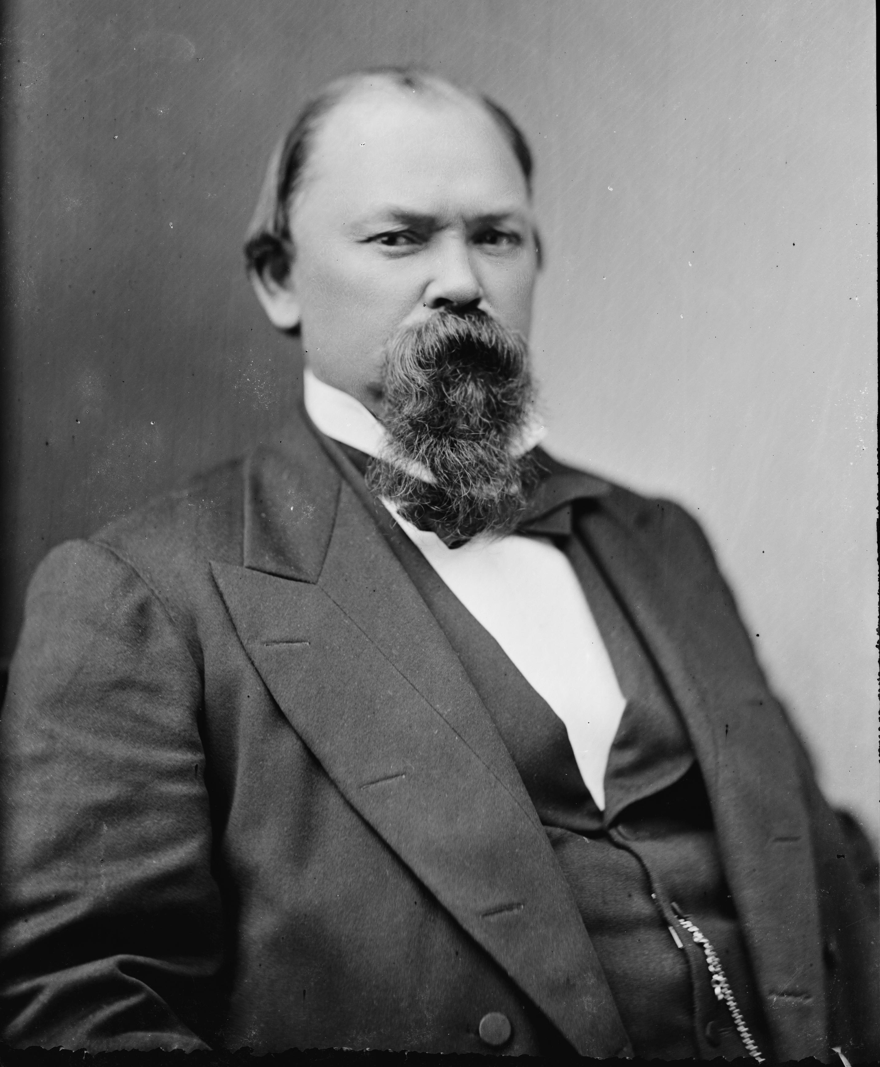 Joseph John Martin. Library of Congress description: "Martin, Hon. Joseph John of N.C.".